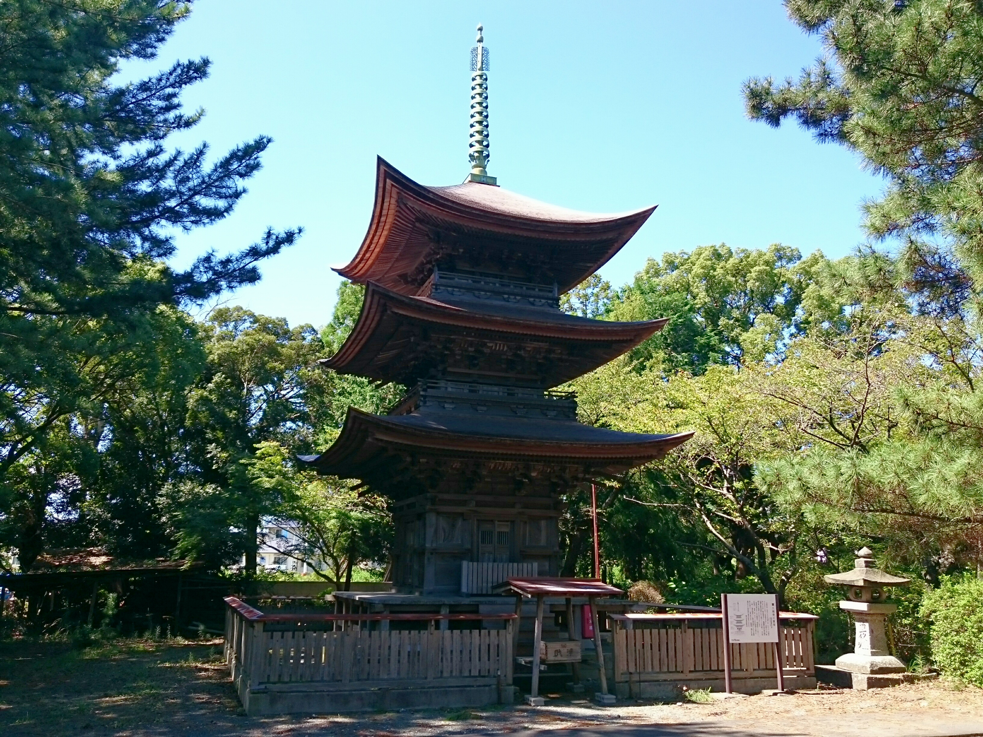 Sanmyoji (三明寺), located at 37 Hadori, Toyokawa, Aichi, Japan